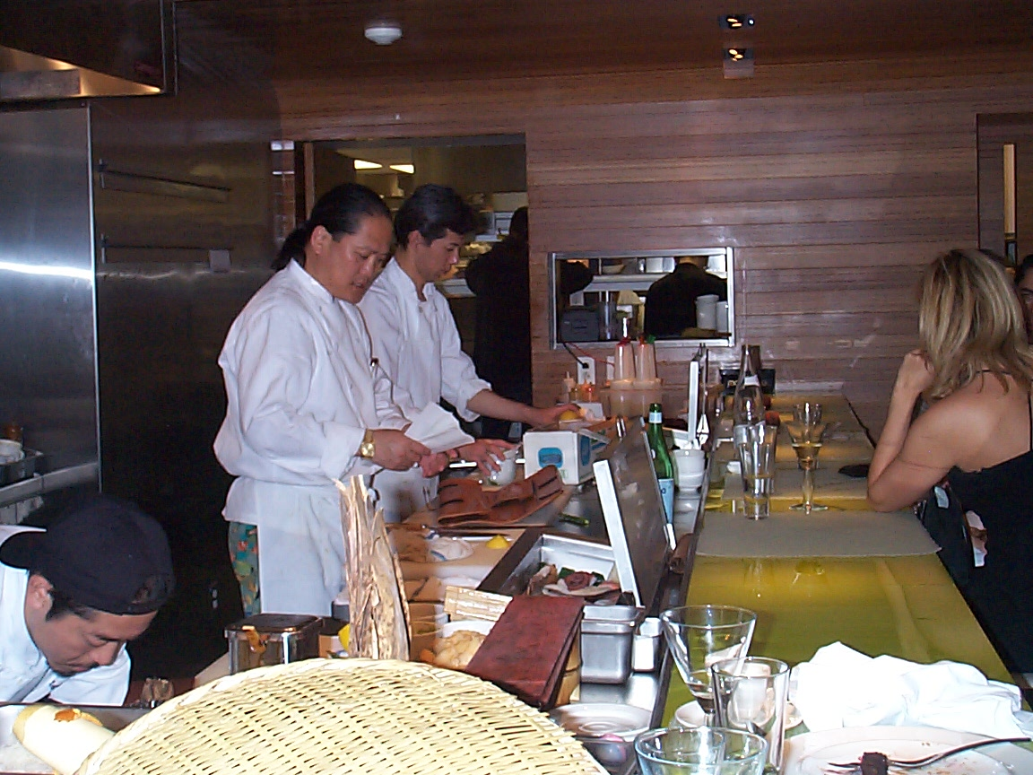 Another angle of Morimoto at work.